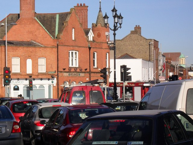 Traffic congestion at Rathmines Where the Upper and Lower Rathmines Roads meet the Rathgar Road.